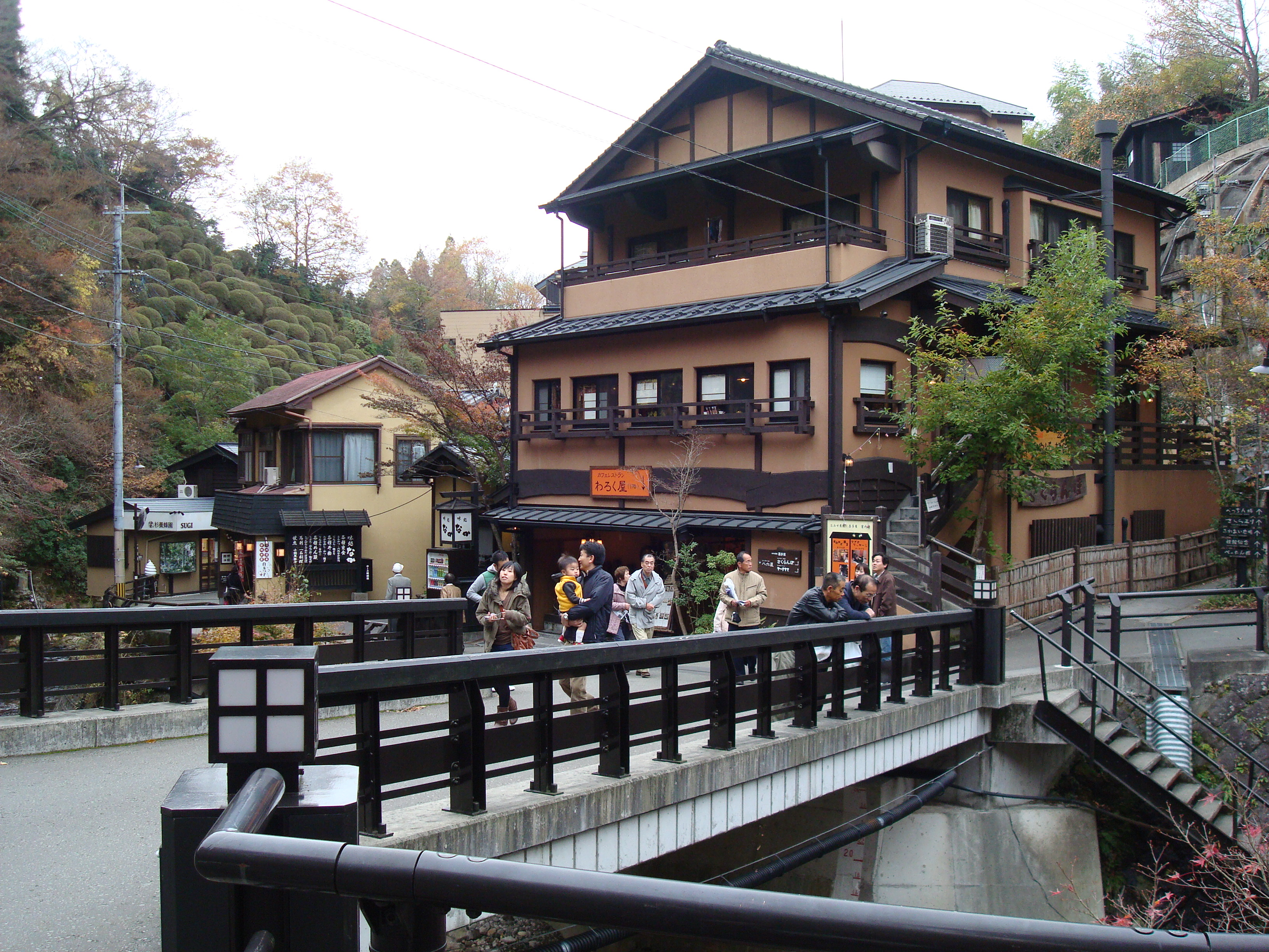 Street and MaruRin-Bridge in Kurokawa Onsen